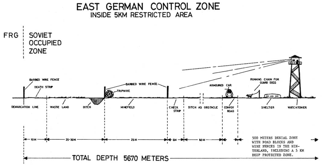 Diagram of the architecture of the inner German border as of 1971. From William E. Stacy, US Army Border Operations in Germany, US Army Military History Office, 1984.